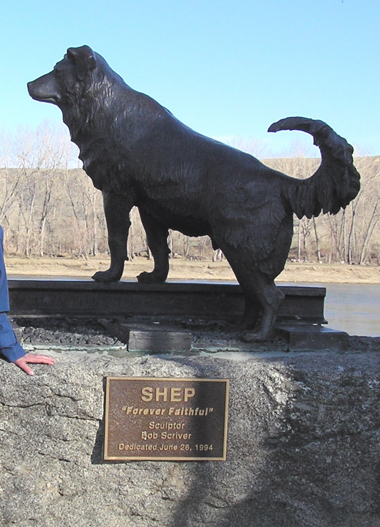 "Forever Faithful," Bob Scriver bronze statue of Shep, Fort Benton Montana